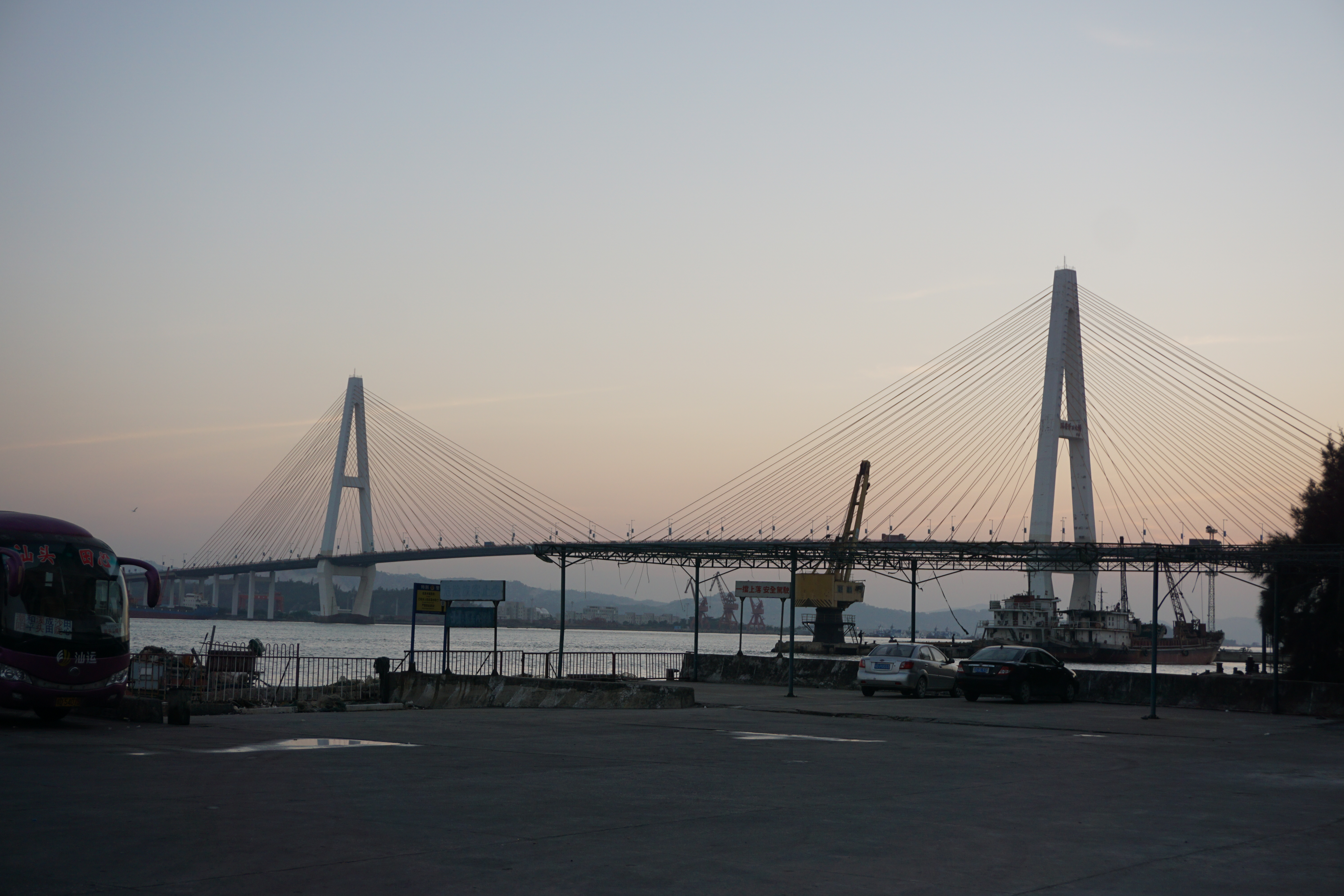 Shantou Queshi suspension bridge in China during sunset